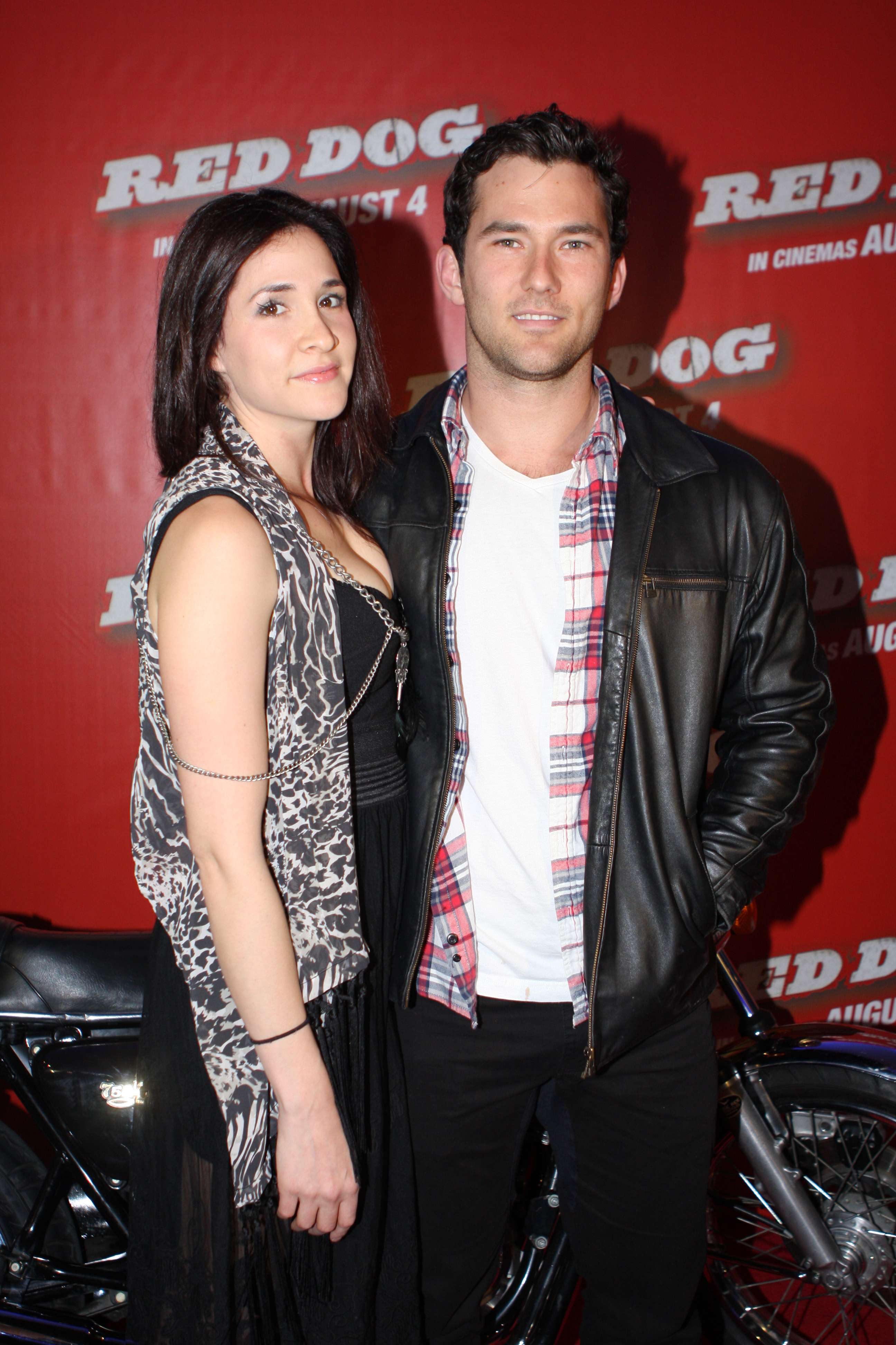 Luke McKenzie with ?? at the Red Dog film premiere in Sydney.